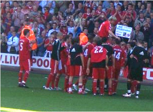 Sami Hyypia is held aloft by his teammates on his final appearance for Liverpool F.C.